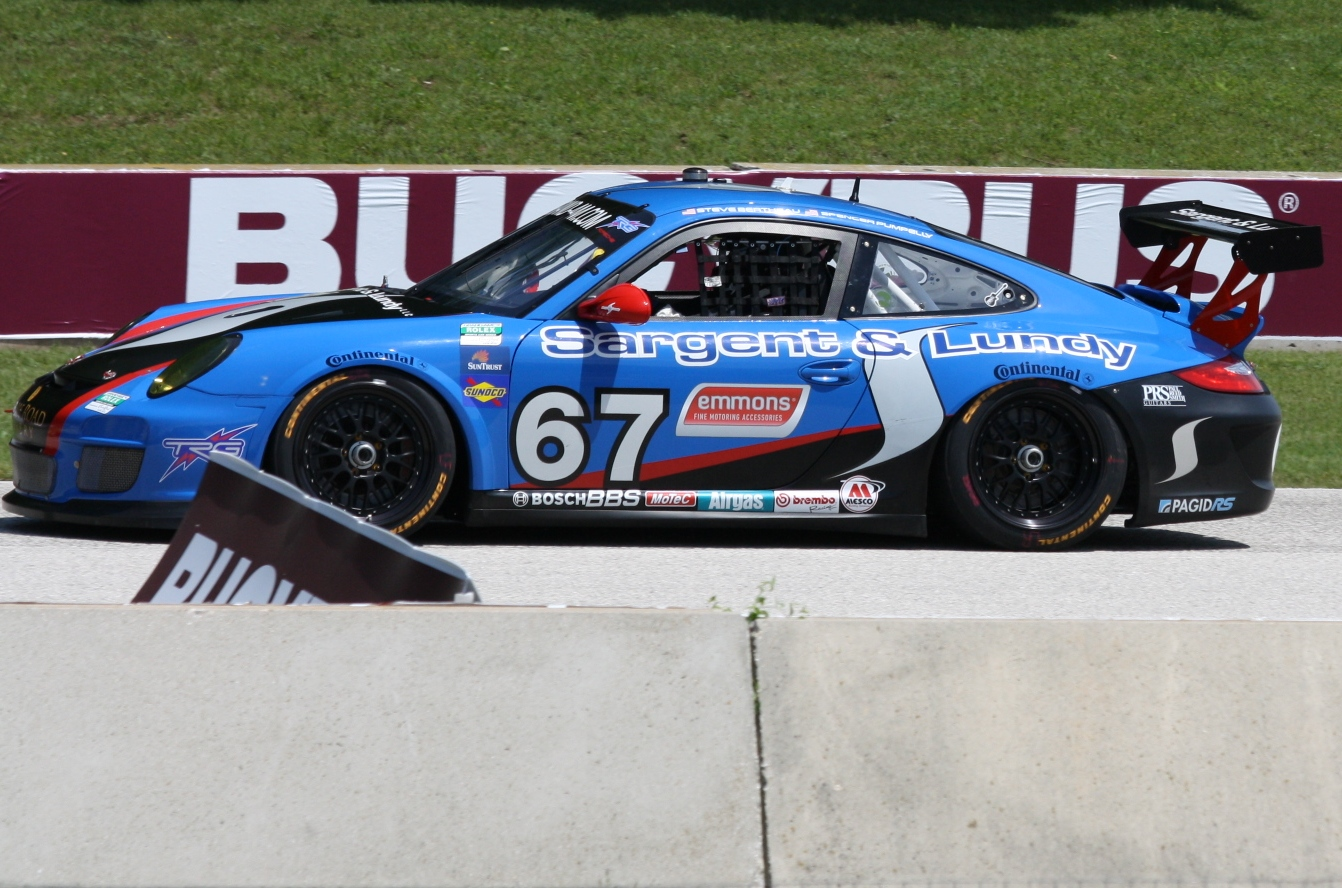 The GT sports car of Stevem Bertheau and Spencer Pumpelly racing at an event at Road America.